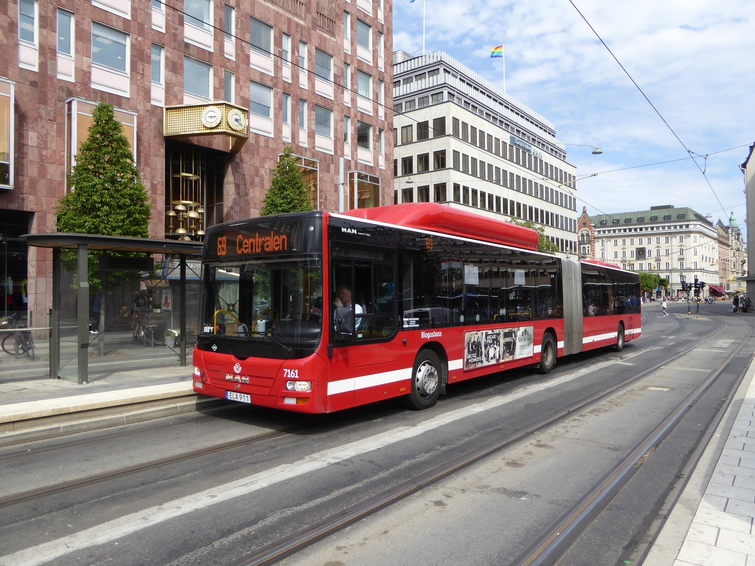 SL bus line 69 on Hamngatan at Kungsträdgården in Stockholm.